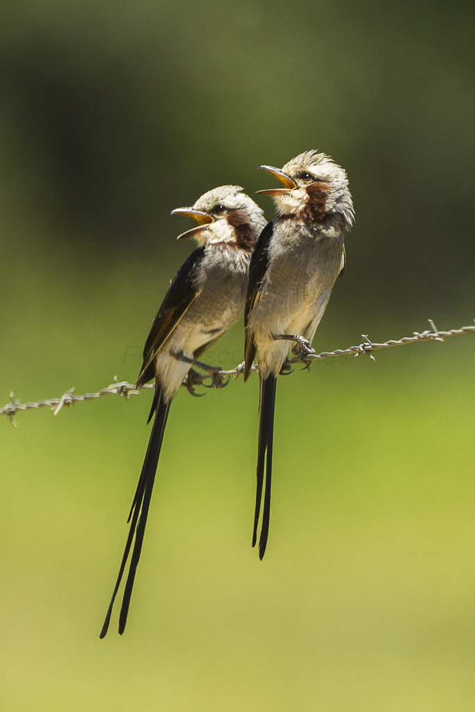 Streamer-tailed Tyrant - Sumidoro - Brazil_S4E1439